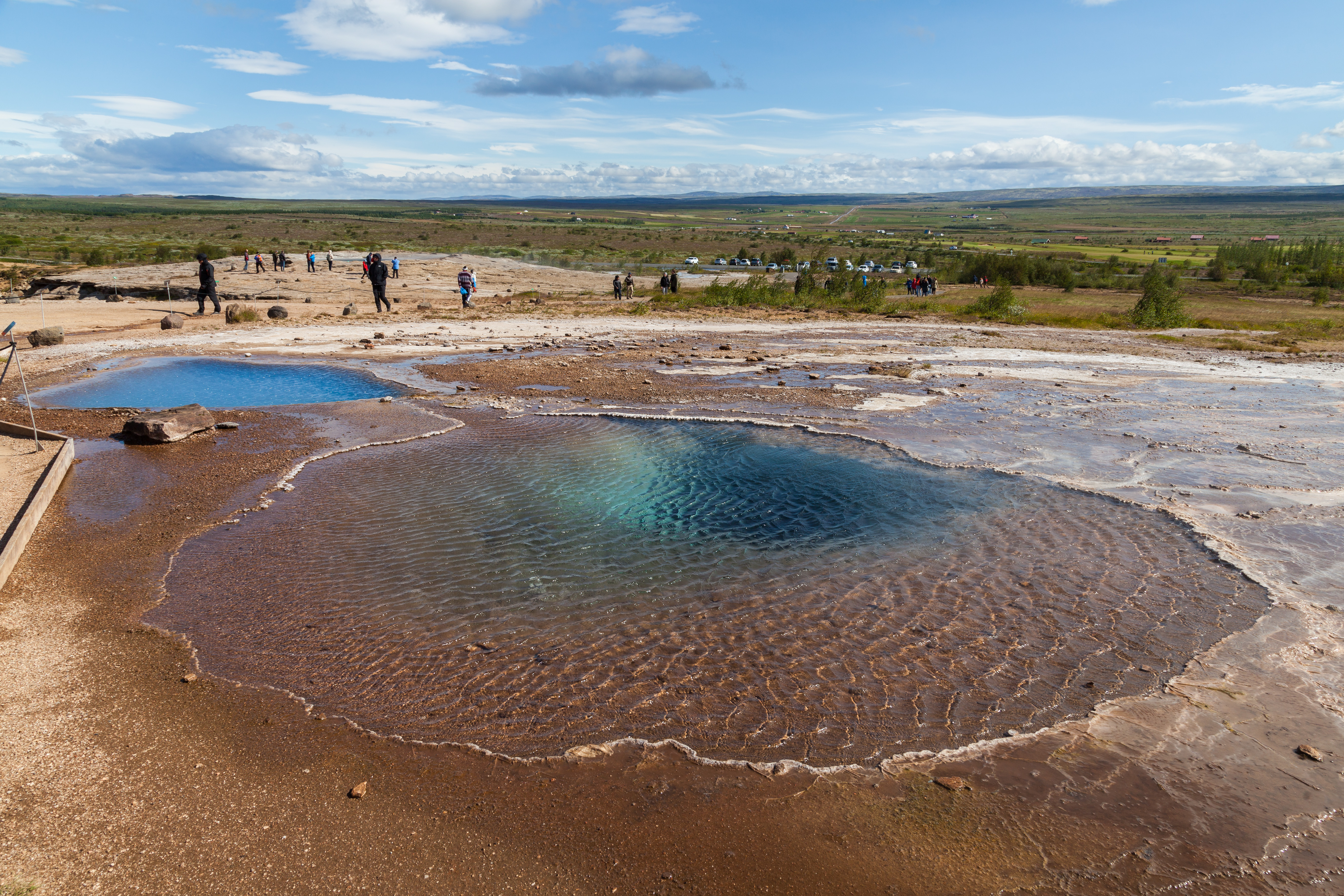 Blesi, Geysir Geothermal Field, Suðurland, Iceland